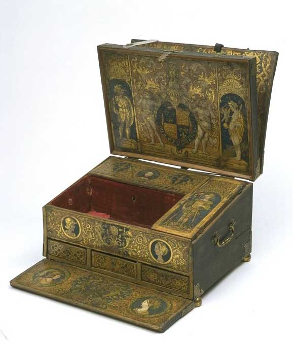 Henry VIII's writing desk, about 1525 V&A Museum no. W.29:1 to 9-1932 Techniques - Walnut and oak, lined with painted and gilded leather and silk velvet; later shagreen (possibly sharkskin) outer covering Place - London, England Dimensions - Height 5 cm, Width 41 cm, Depth 27 cm